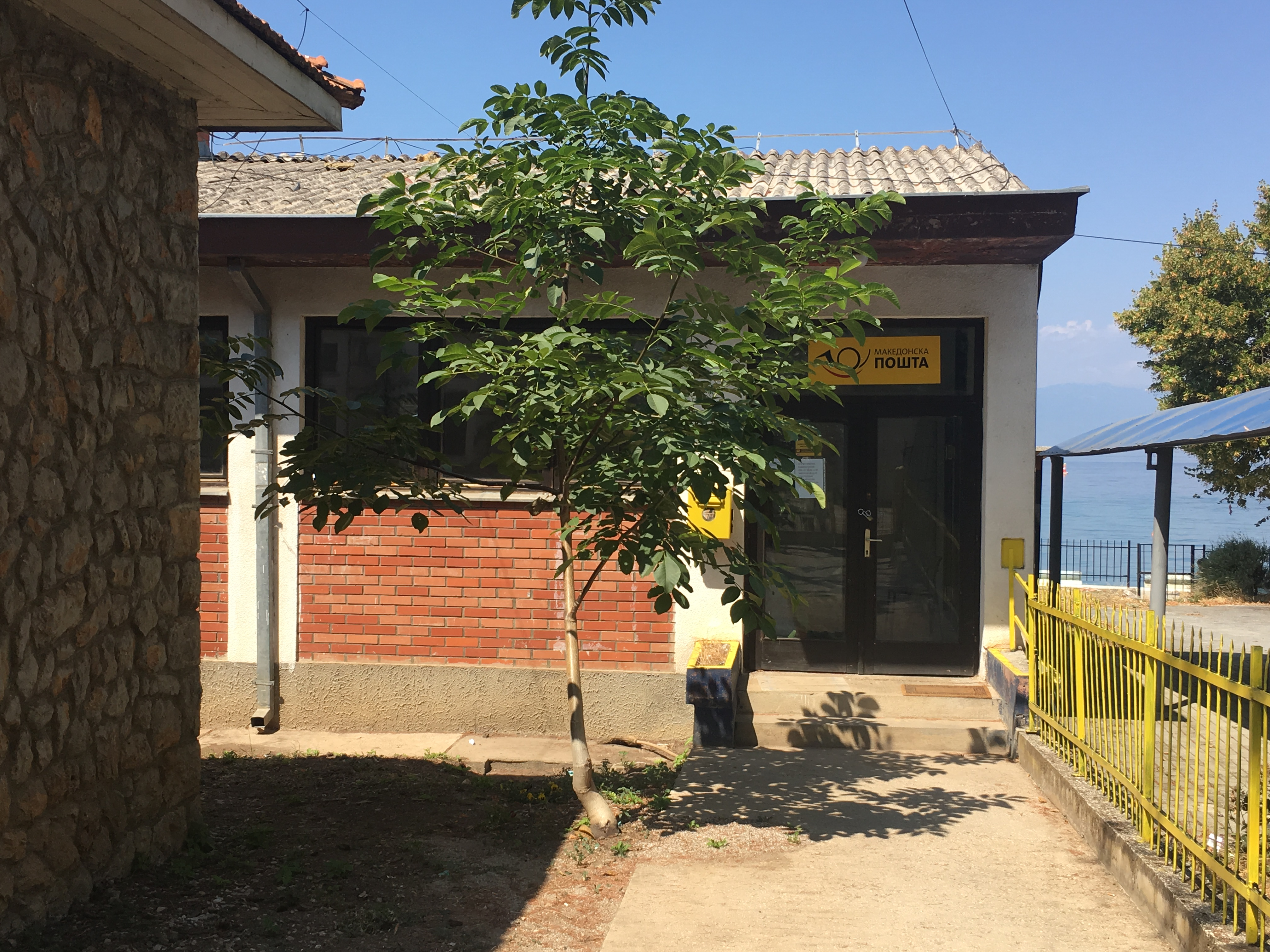 The post office in the village of Peštani